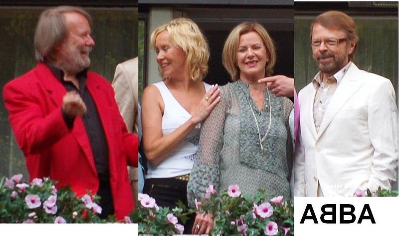 Crops taken from this free picture on Commons: .